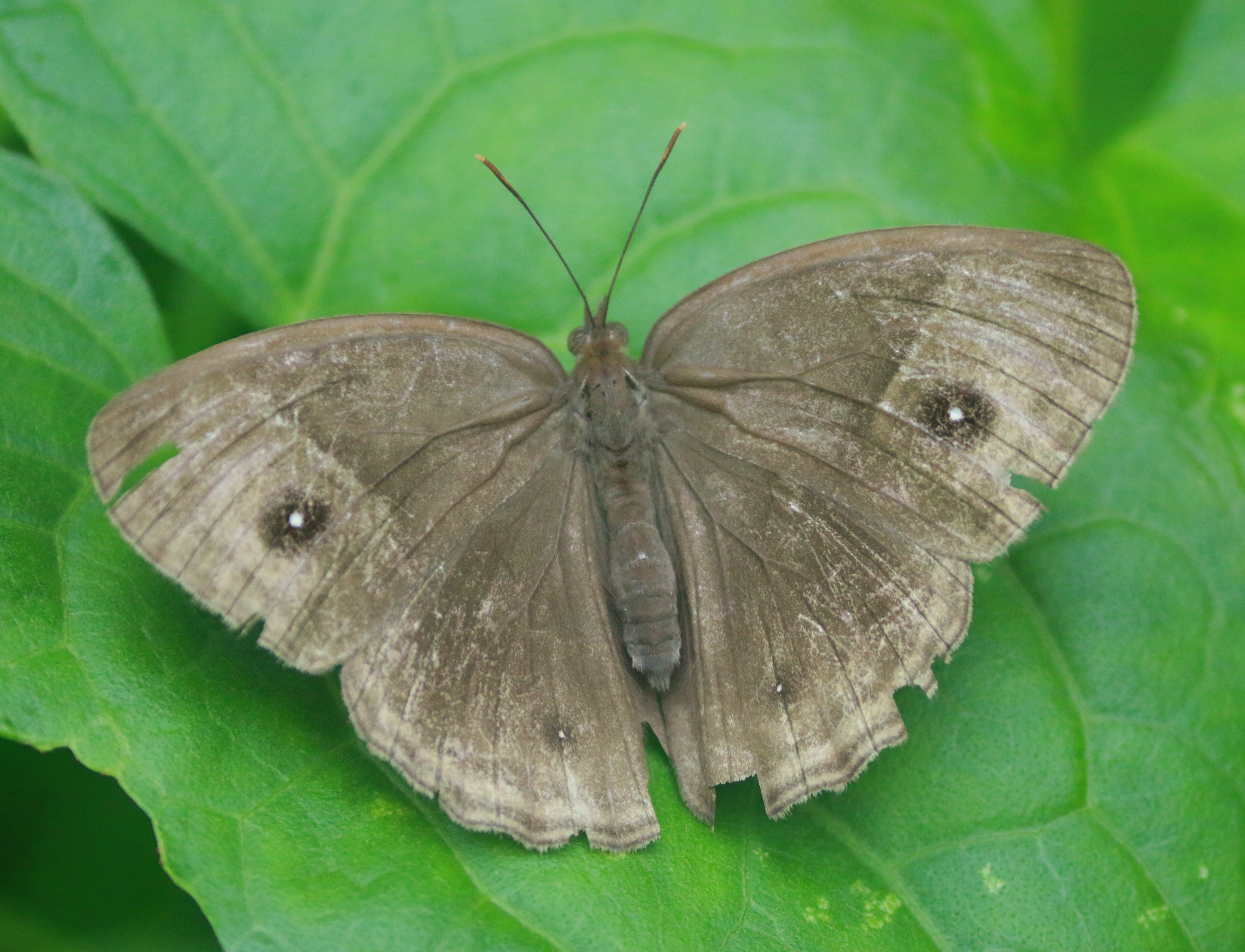 Common Bush brown in opened wings